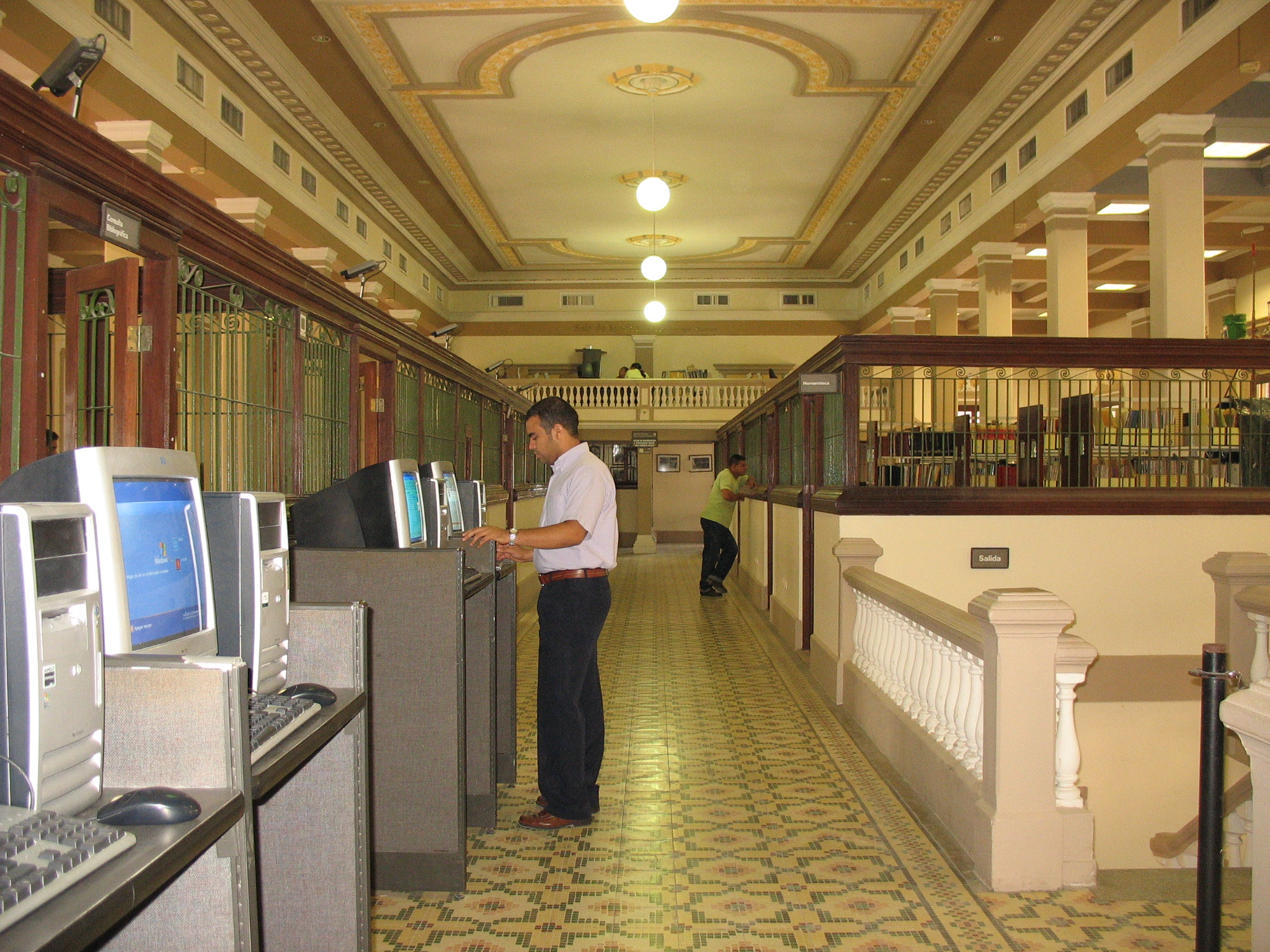 Barranquilla Caribbean Pilot LIbrary